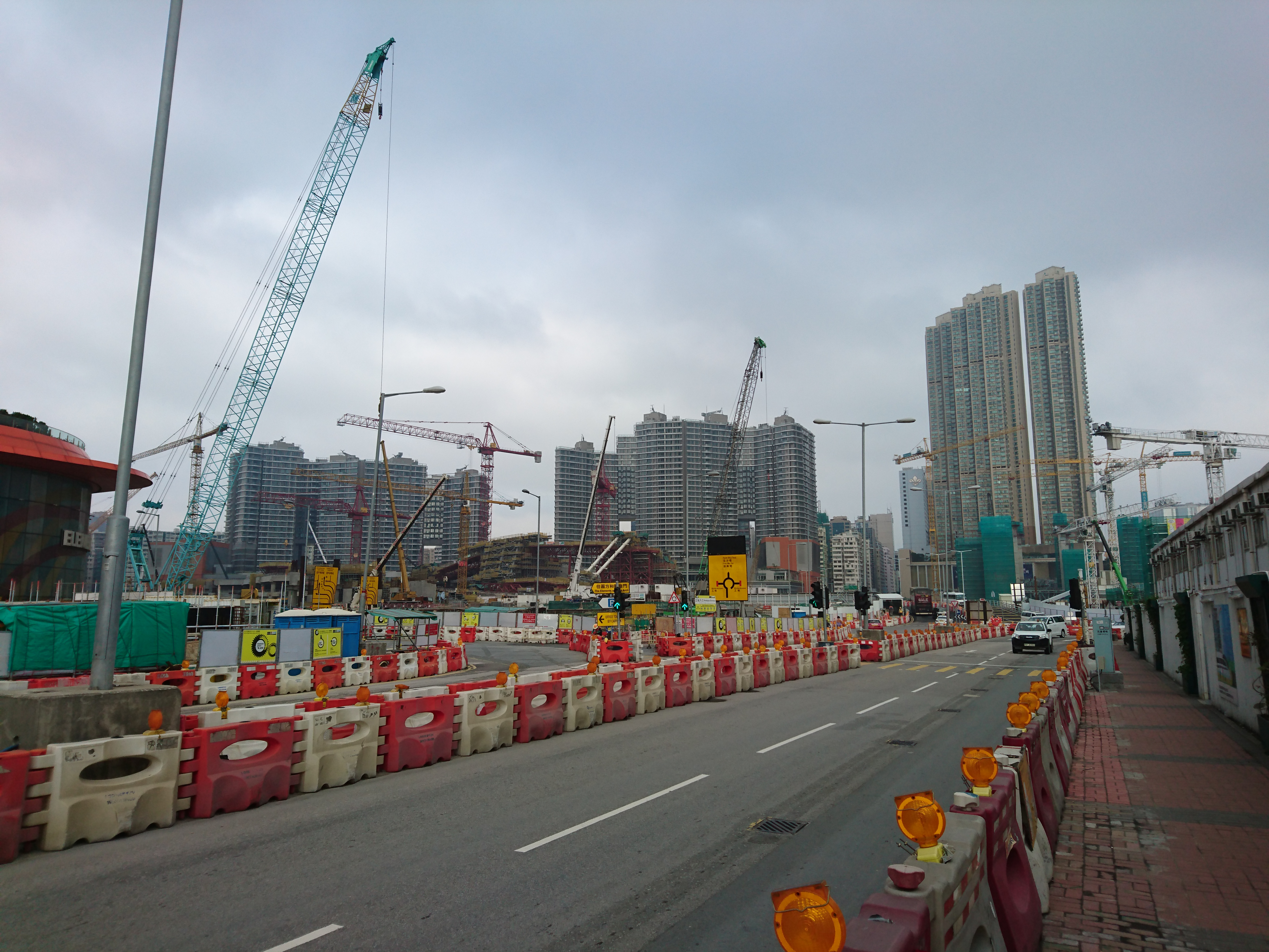 Austin Road West near Lin Cheung Road